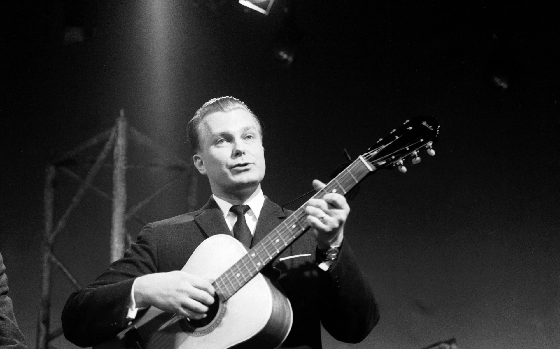 Photograph of the Finnish musician Sauvo Puhtila alias Saukki (1928–2014).